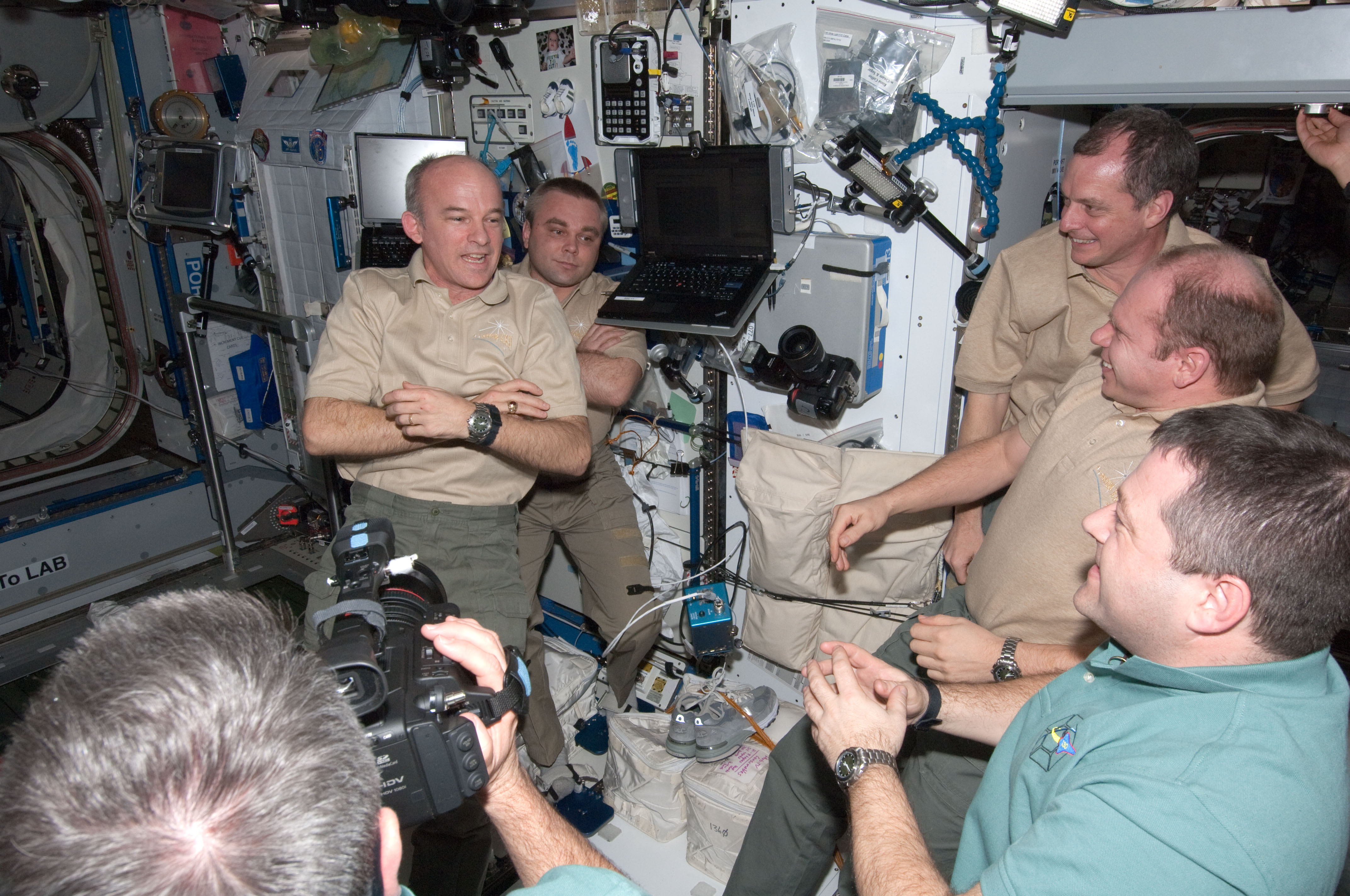 The STS-130 and Expedition 22 crew members gather for a farewell ceremony in the Harmony node of the International Space Station. Pictured clockwise (from the left background) are NASA astronaut Jeffrey Williams, Expedition 22 commander; Russian cosmonaut Maxim Suraev, NASA astronaut T.J. Creamer and Russian cosmonaut Oleg Kotov, all Expedition 22 flight engineers; along with NASA astronauts Nicholas Patrick and Stephen Robinson (mostly out of frame), both STS-130 mission specialists. The hatches between space shuttle Endeavour and the station were closed at 3:08 a.m. (EST) on Feb. 19, 2010.